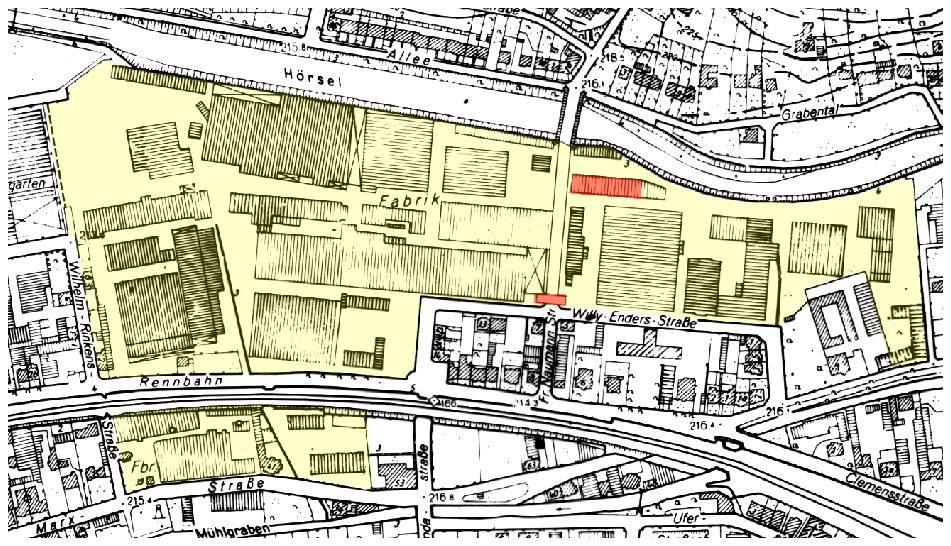 The AWE automotive factory in Eisenach, map.